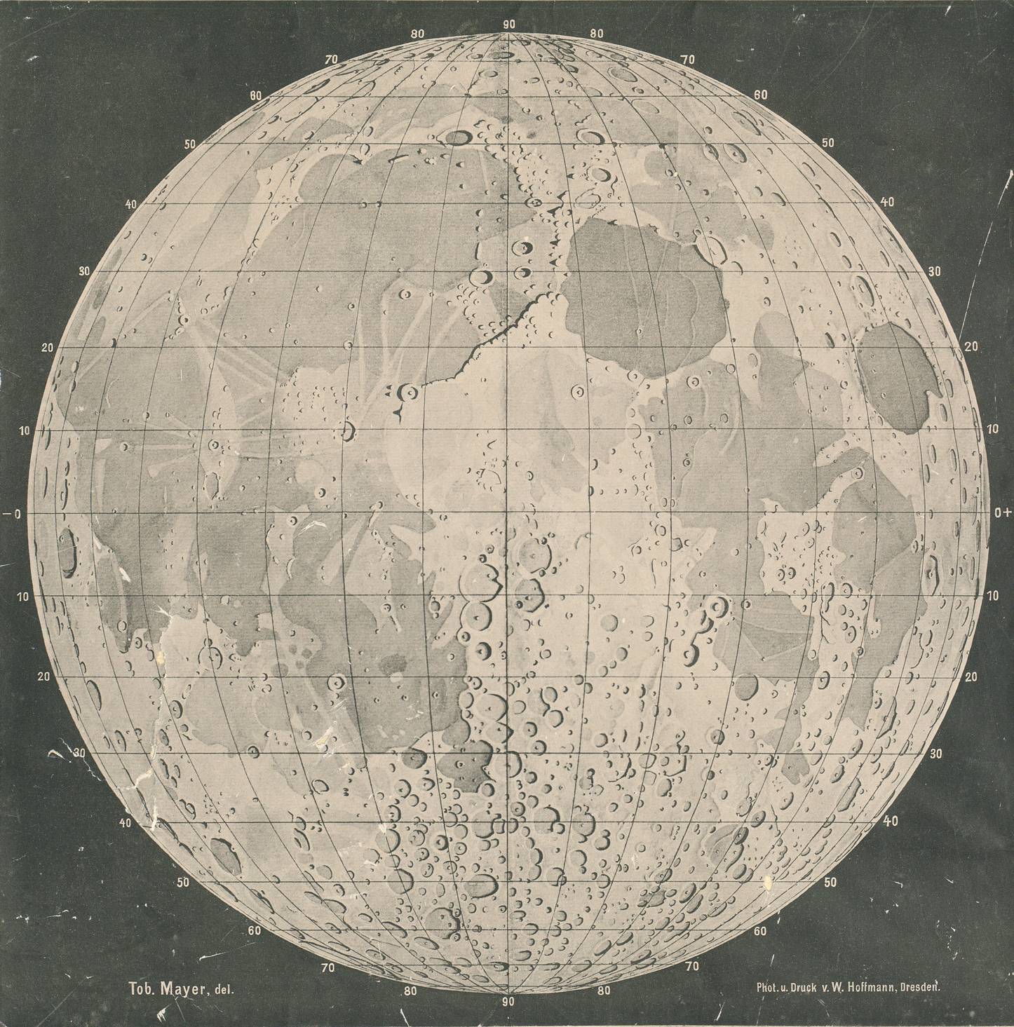 Mondkarte von Tobias Mayer